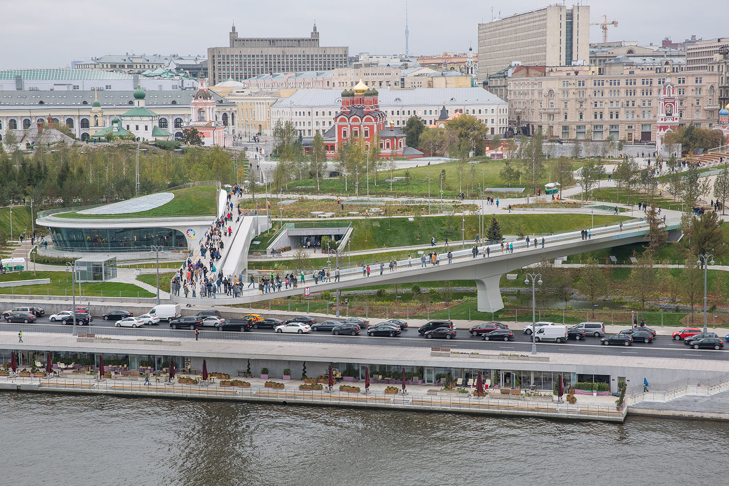 Zaryadye Park in Moscow